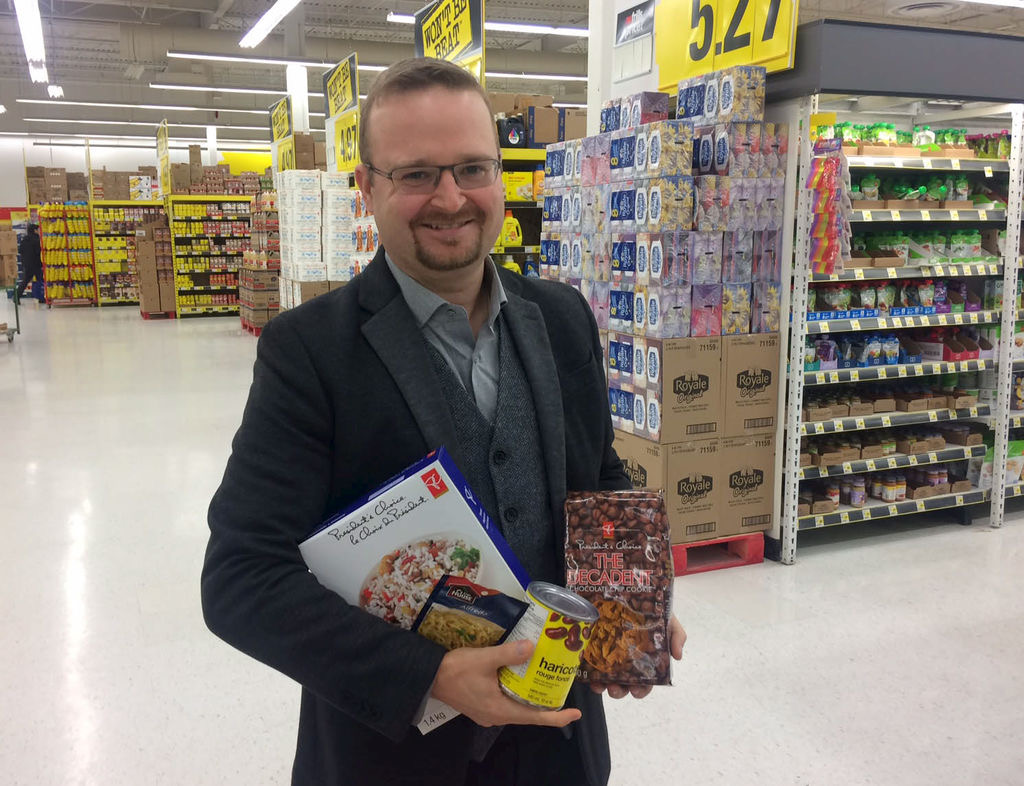 2018 OC Transpo food drive in support of the Ottawa Food Bank